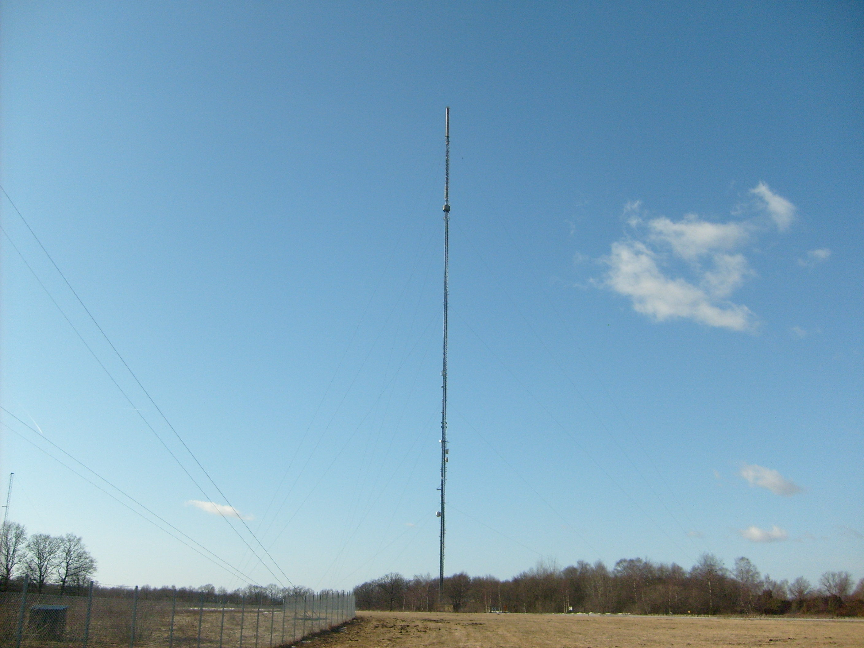 The FM/TV-tower in Hoerby, Sweden